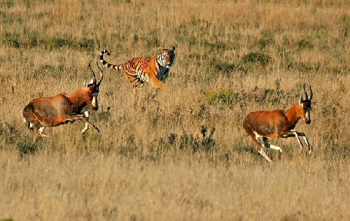 A South China Tiger chasing a herd of blesbucks.